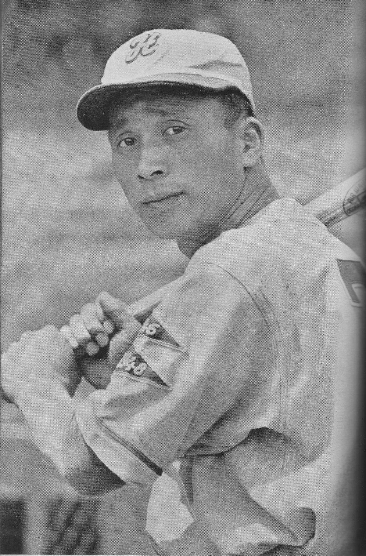 Tokuji Iida (Nankai Hawks). taken in 1950.